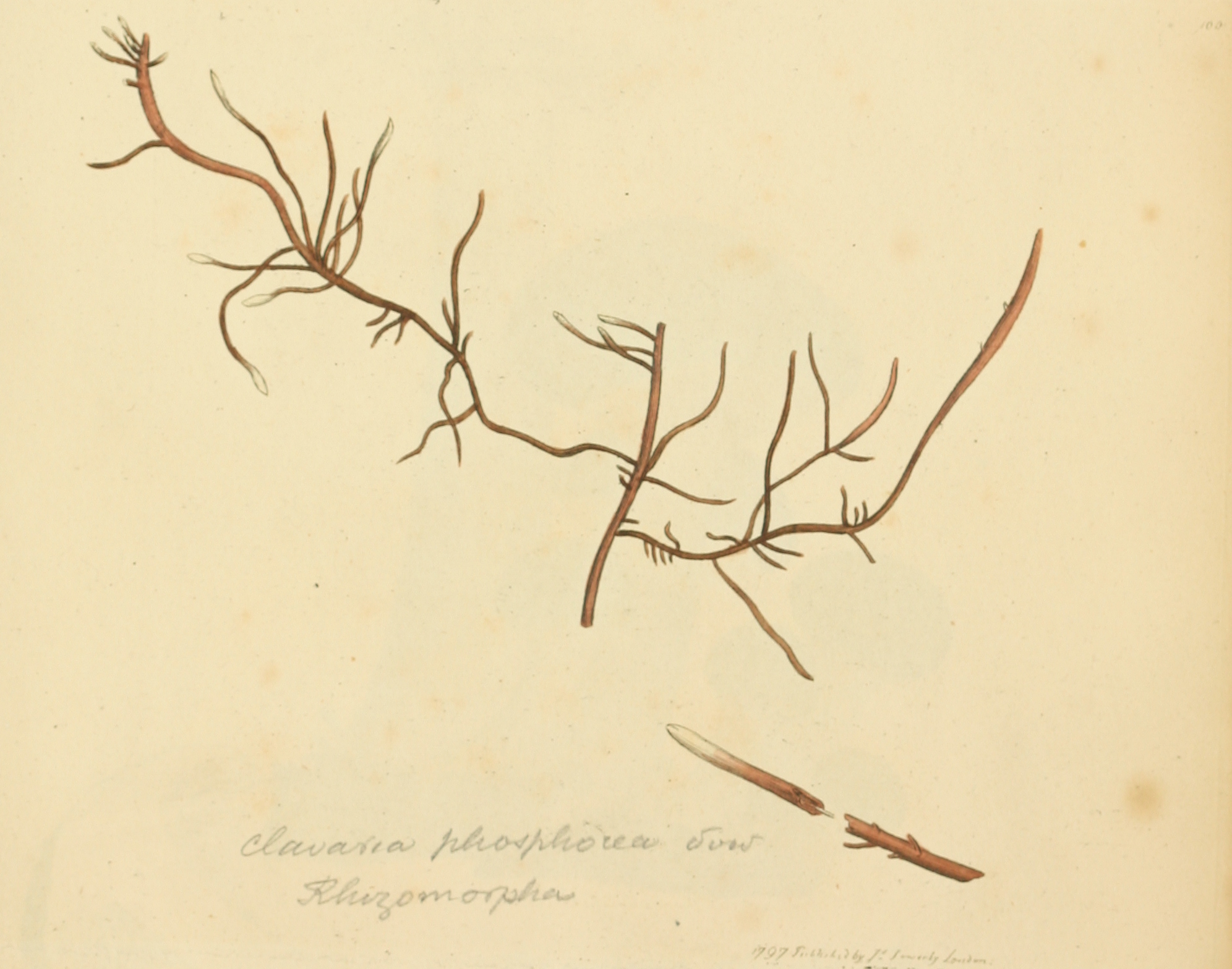 This is a plate from James Sowerby's Coloured Figures of English Fungi or Mushrooms.